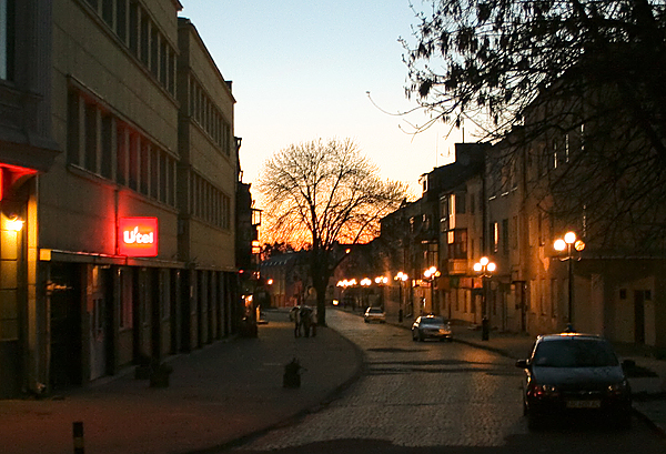 Kryvyi Wal street